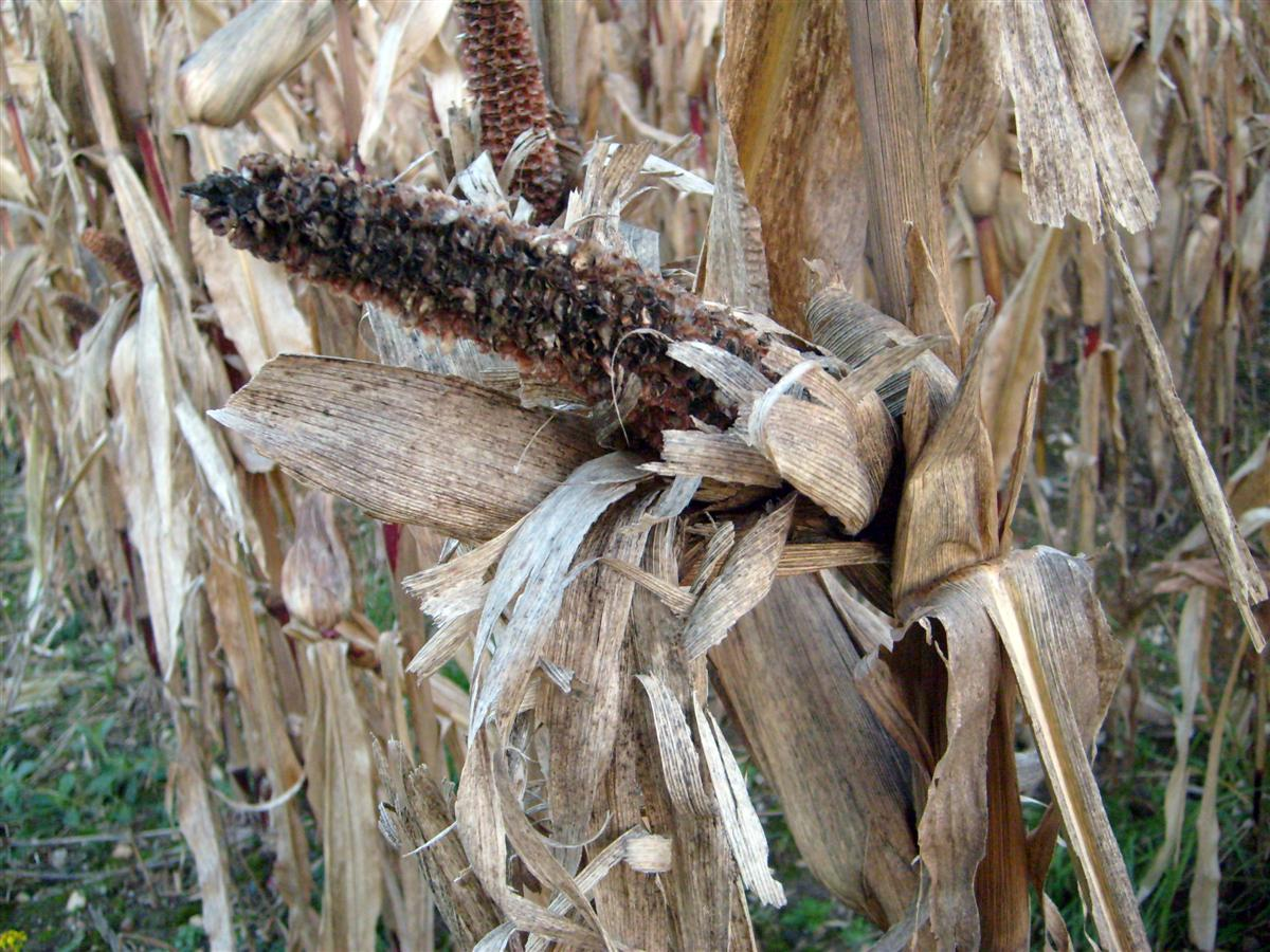 Withered corncobs near Erftstadt, Germany